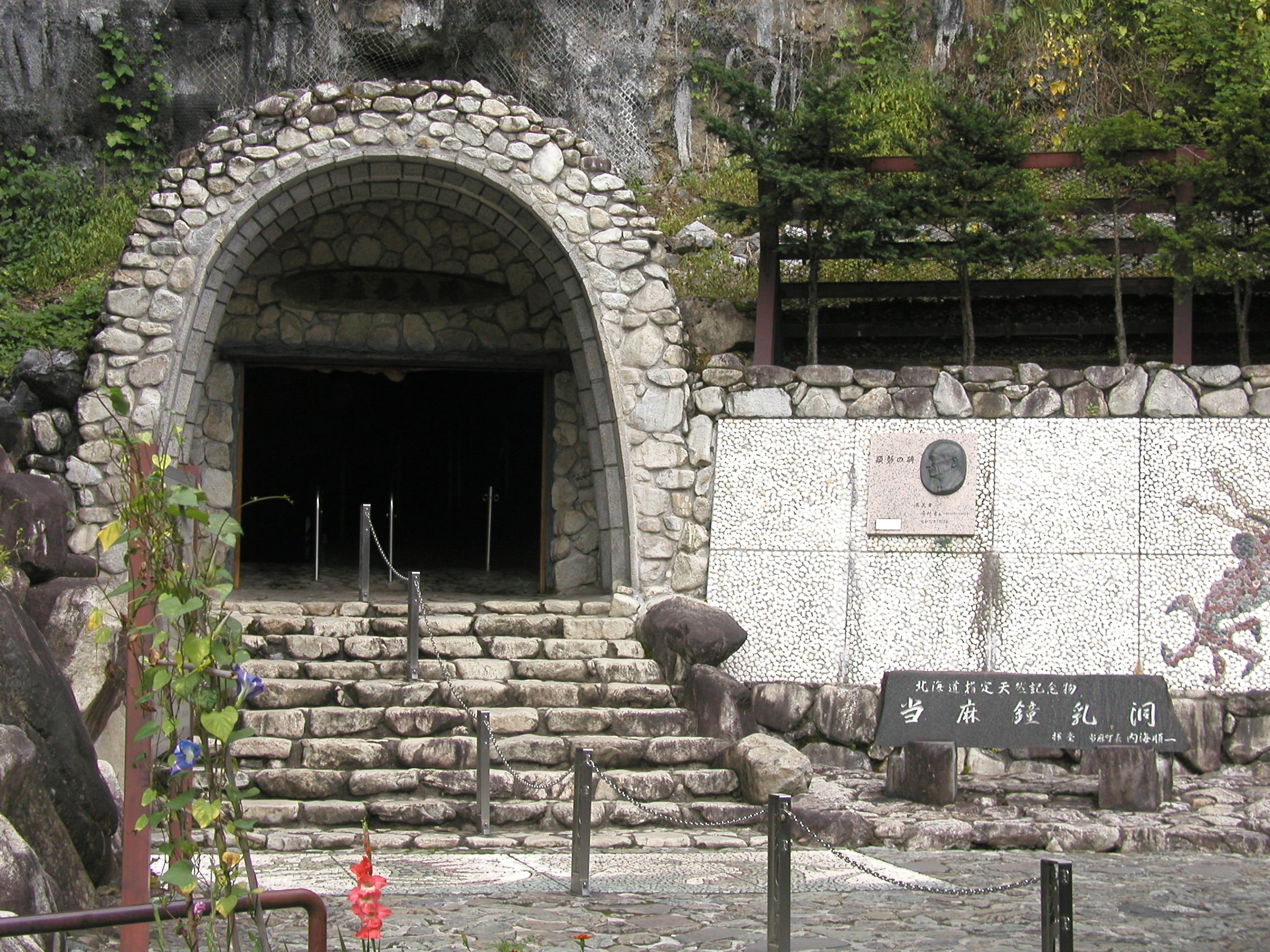 Toma shonyudo (Toma Limestone Cave) in Toma Town, Hokkaido, Japan